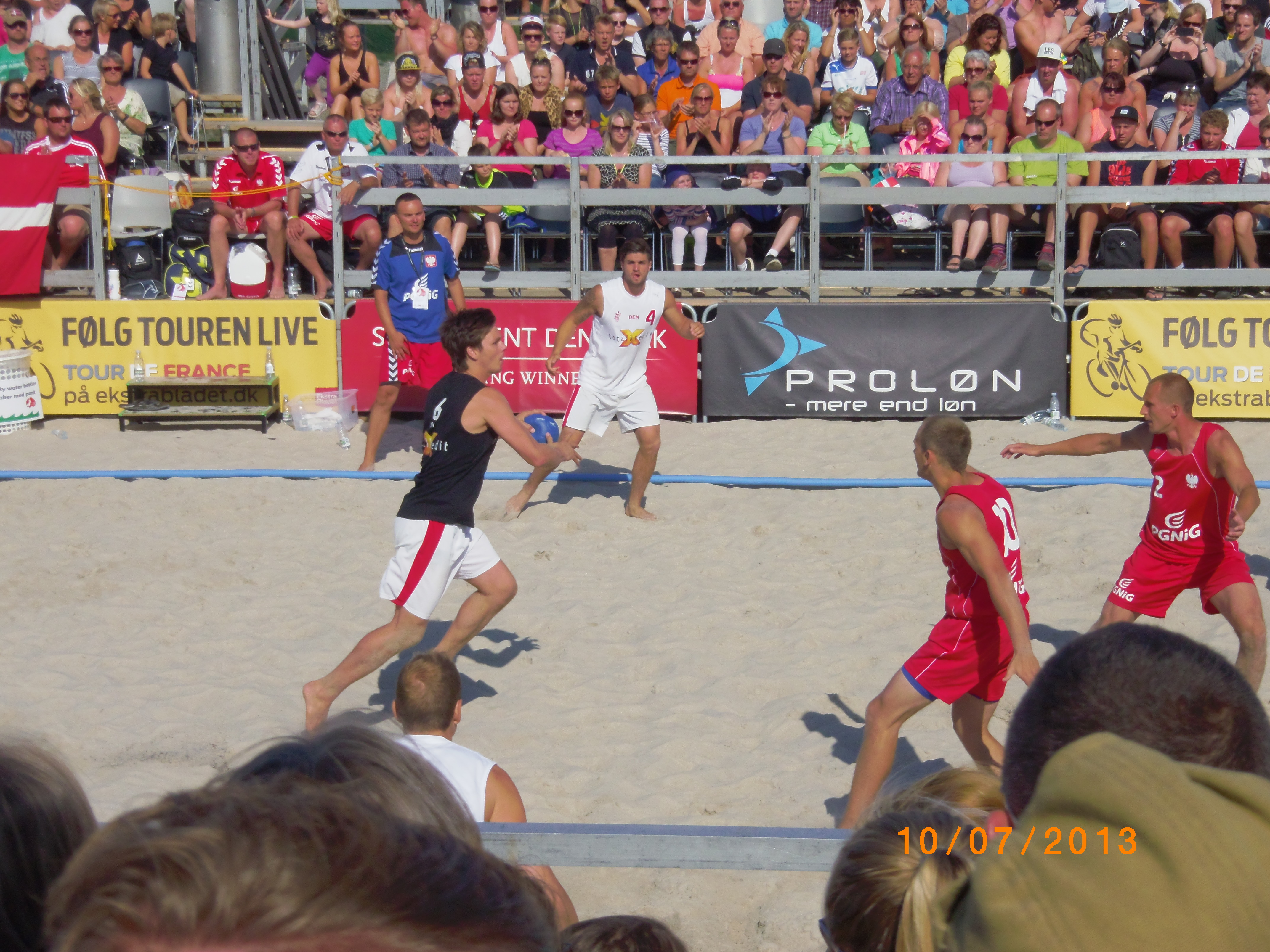 Denmark attacking: 6 - Hans Lindberg, 4 - Simon Radoor, 7 - Jannick Mazur (partly covered, bottom)